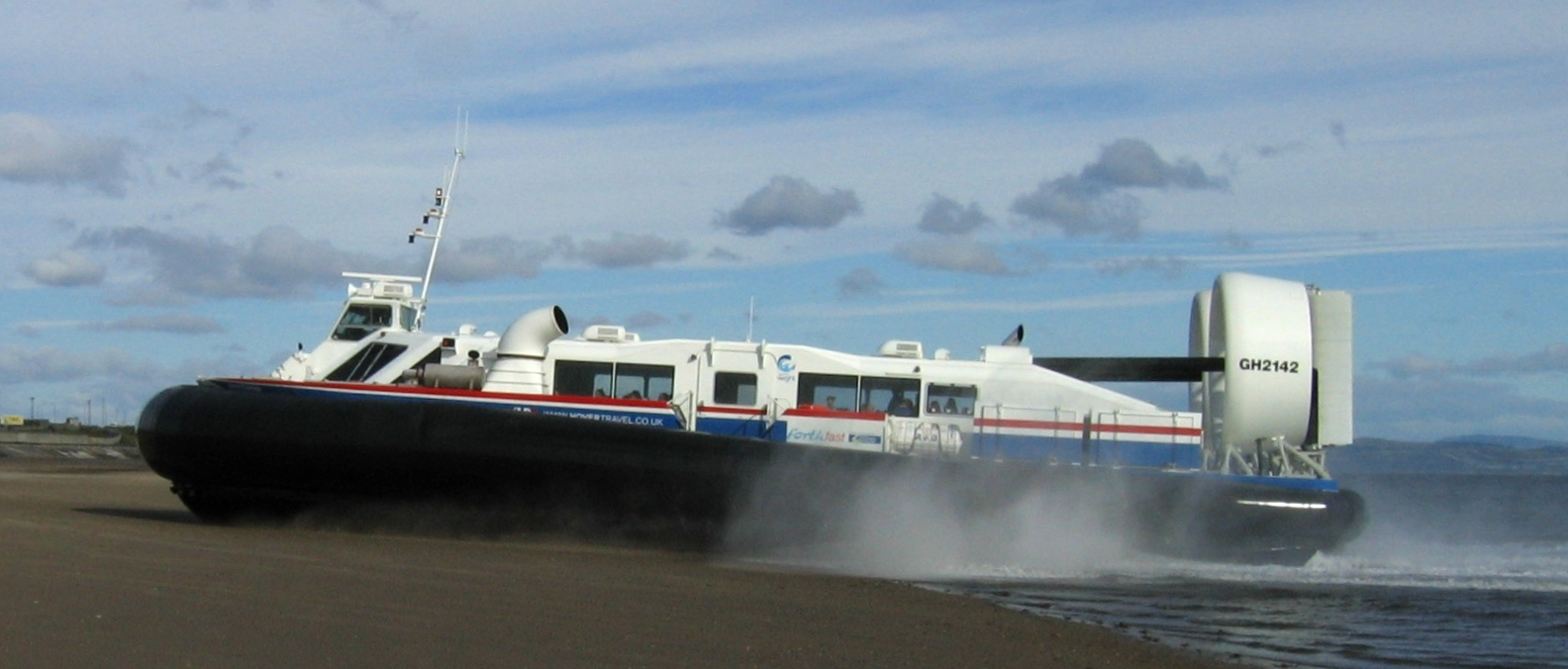 The hovercraft Solent Express on a trial run between Edinburgh and Kirkaldy going onto the beach at Portobello.